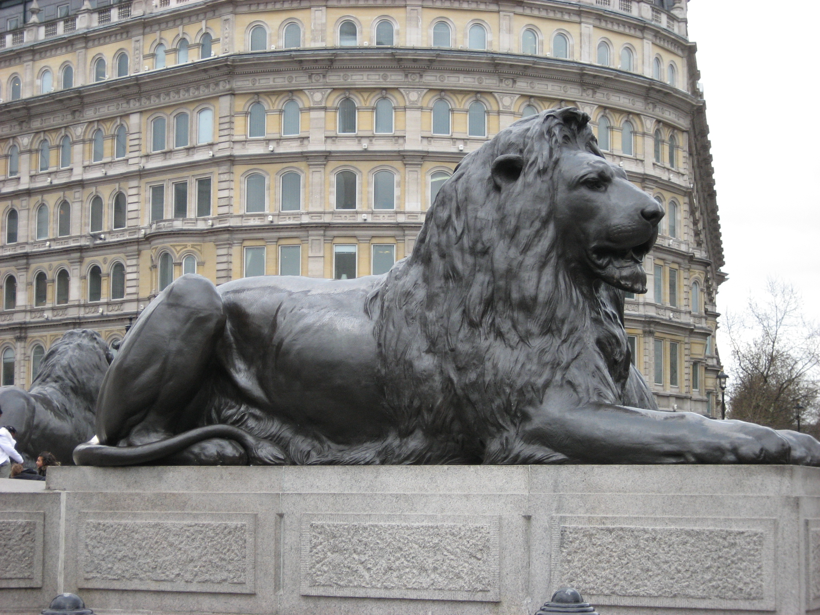 Lion at Nelson's Column by Sir Edwin Landseer, Trafalgar Square, London, UK